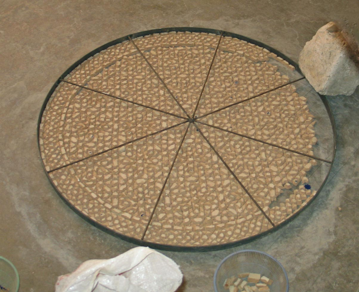 Process of creating Zellige works